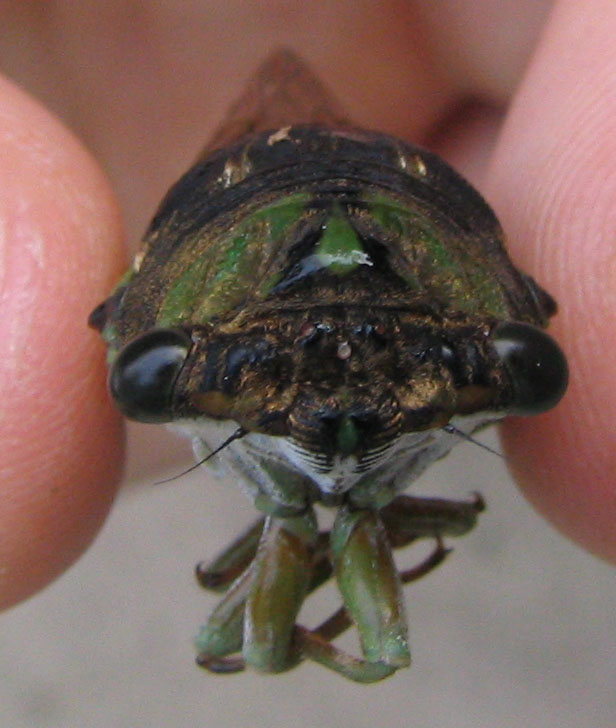 Detail of a female annual cicada's head.